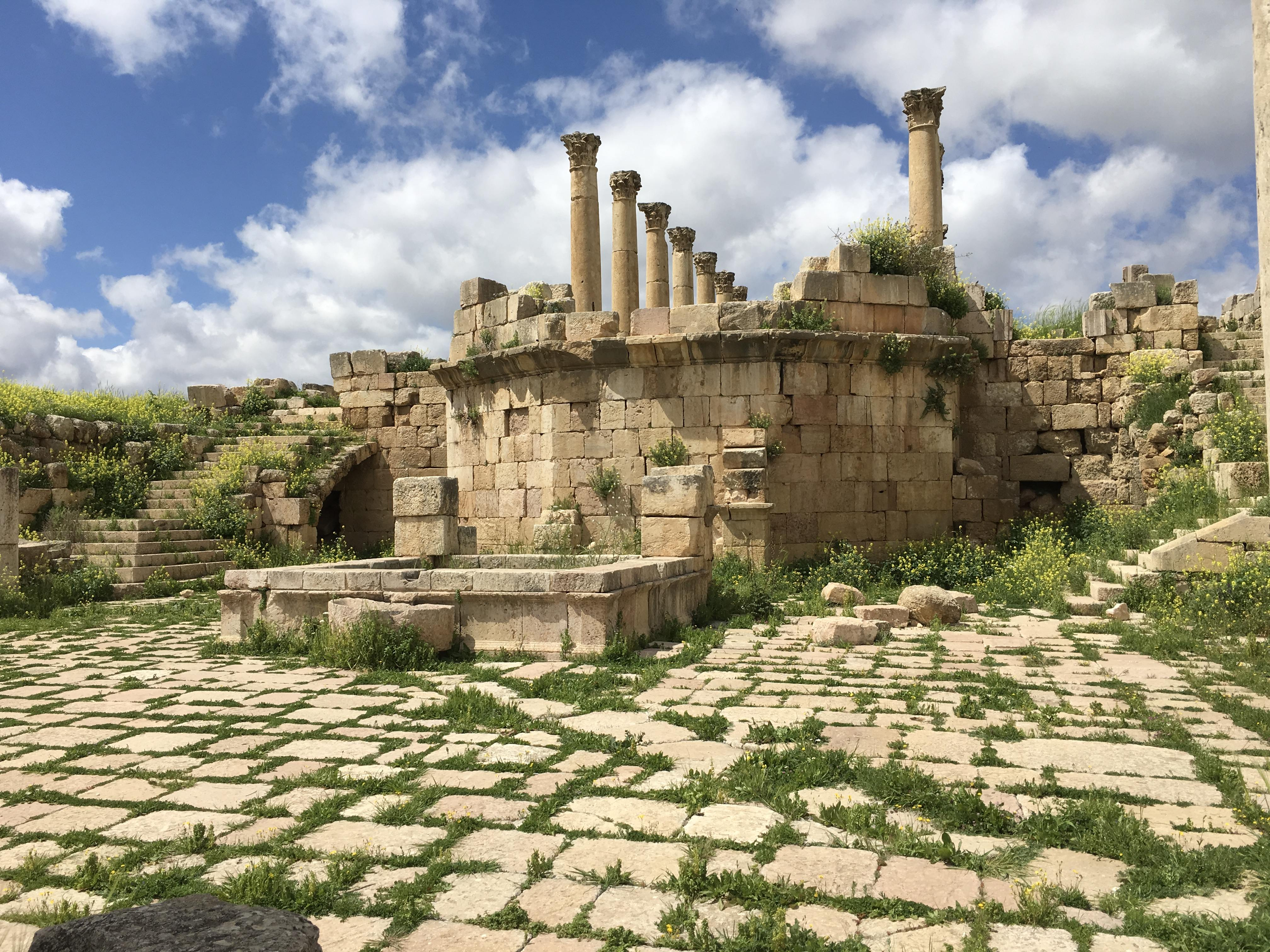 Fountain Court (Jerash)